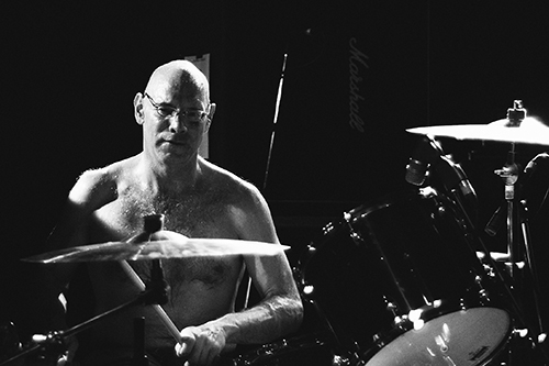 Emmet Murphy @ The Great Northern with Dinosaur Jr.